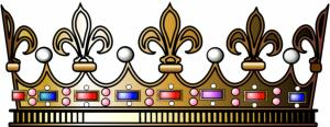 Prince du Sang Royal Crown